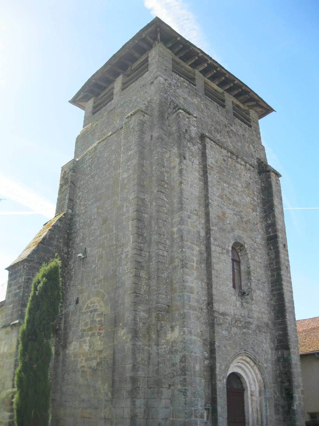 Picture of church Saint Martin of Anglars in Lot, France.